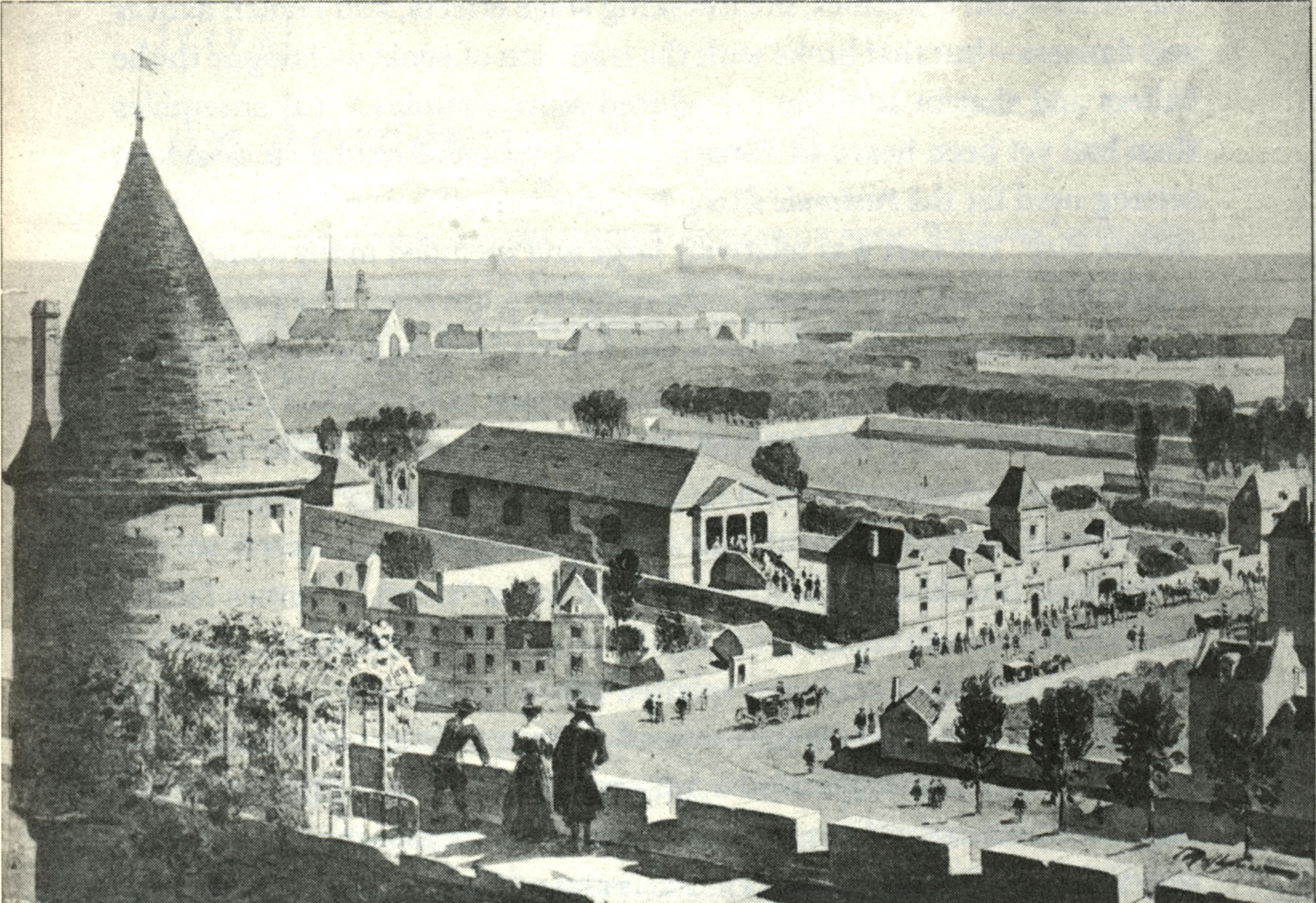 View of the former Bel-Air tennis court (jeu de paume)) in the Rue de Vaugirard (approximately at today's no. 15, at the intersection with the Rue de Médicis). Also called the Jeu de Paume de Bécquet, it was the home of the Paris Opera from November 1672 until June 1673. The view is from the city ramparts overlooking the moat (fossé) and the Rue des Fossés Monsieur-le-Prince, now the Rue Monsieur-le-Prince [1].